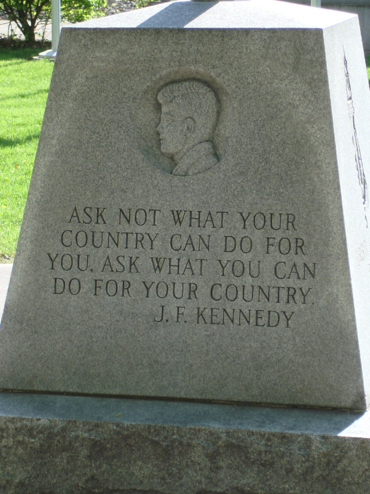 John F. Kennedy quote "Ask not what your country can do for you"